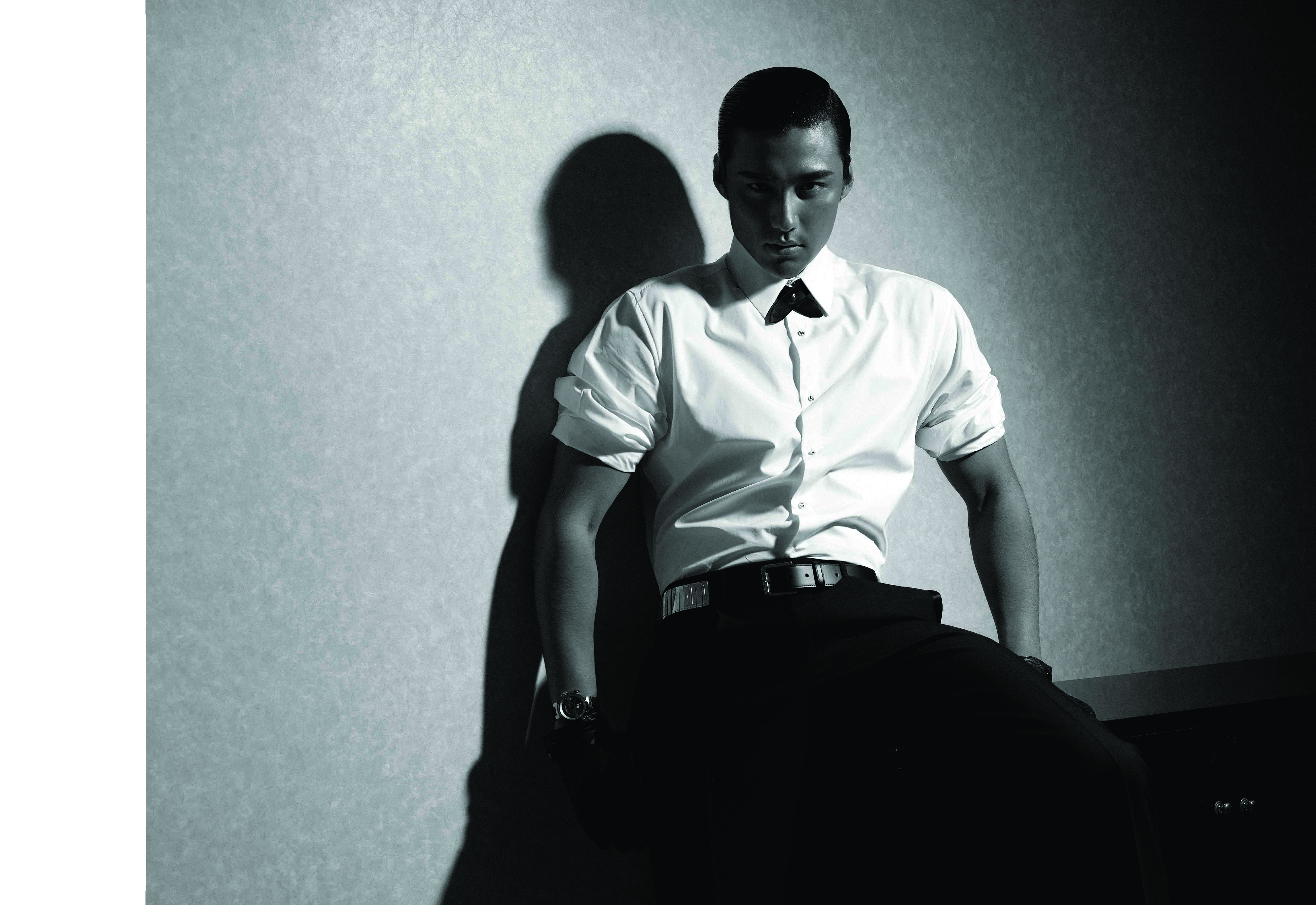 Hu Bing 2004 LV Photo Shoot